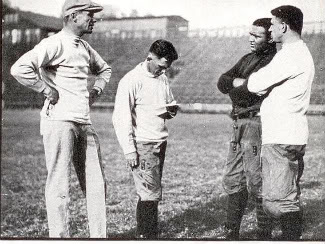 The Cal coaching staff at California Field in 1922. From left: Smith, Clarence "Nibs" Price, Walter Gordon, and Albert Rosenthal.